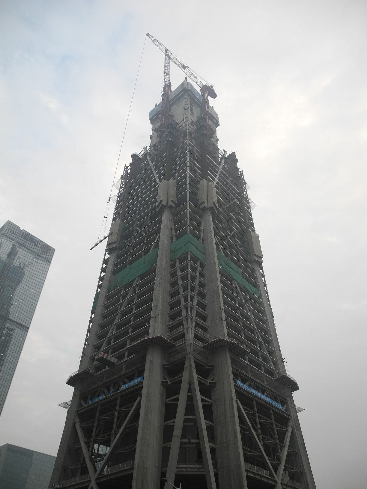 Pingan International Finance Center, December 2013